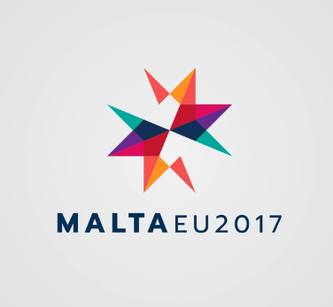 Logo of the Maltese EU presidency of the Council of the European Union 2017